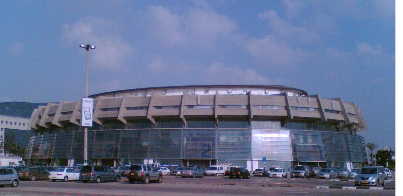 Yad Eliyahu Stadium, Tel Aviv. Picture taken by David Shay.